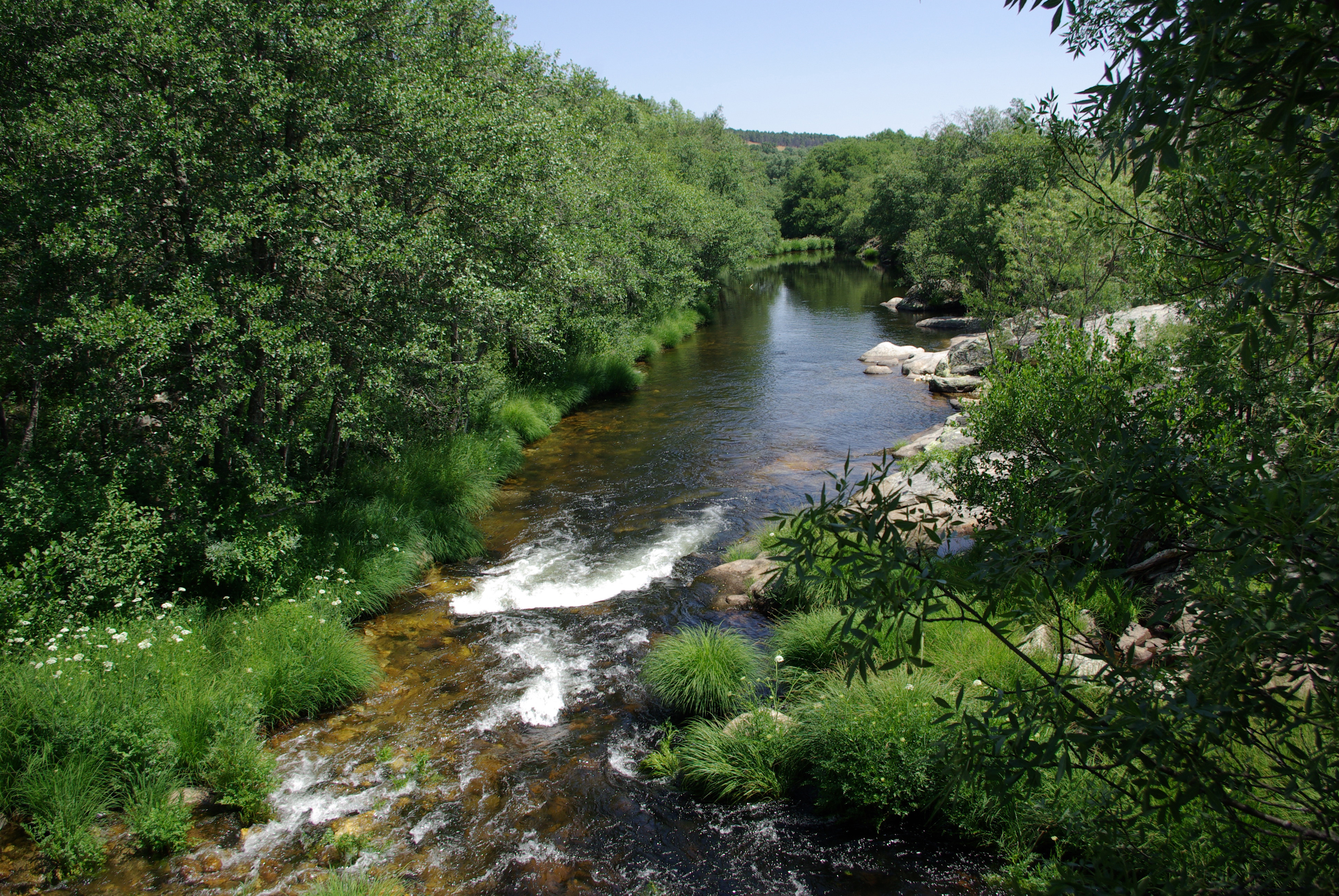 River Aravalle in La Canaleja, La Carrera (Ávila, Spain)